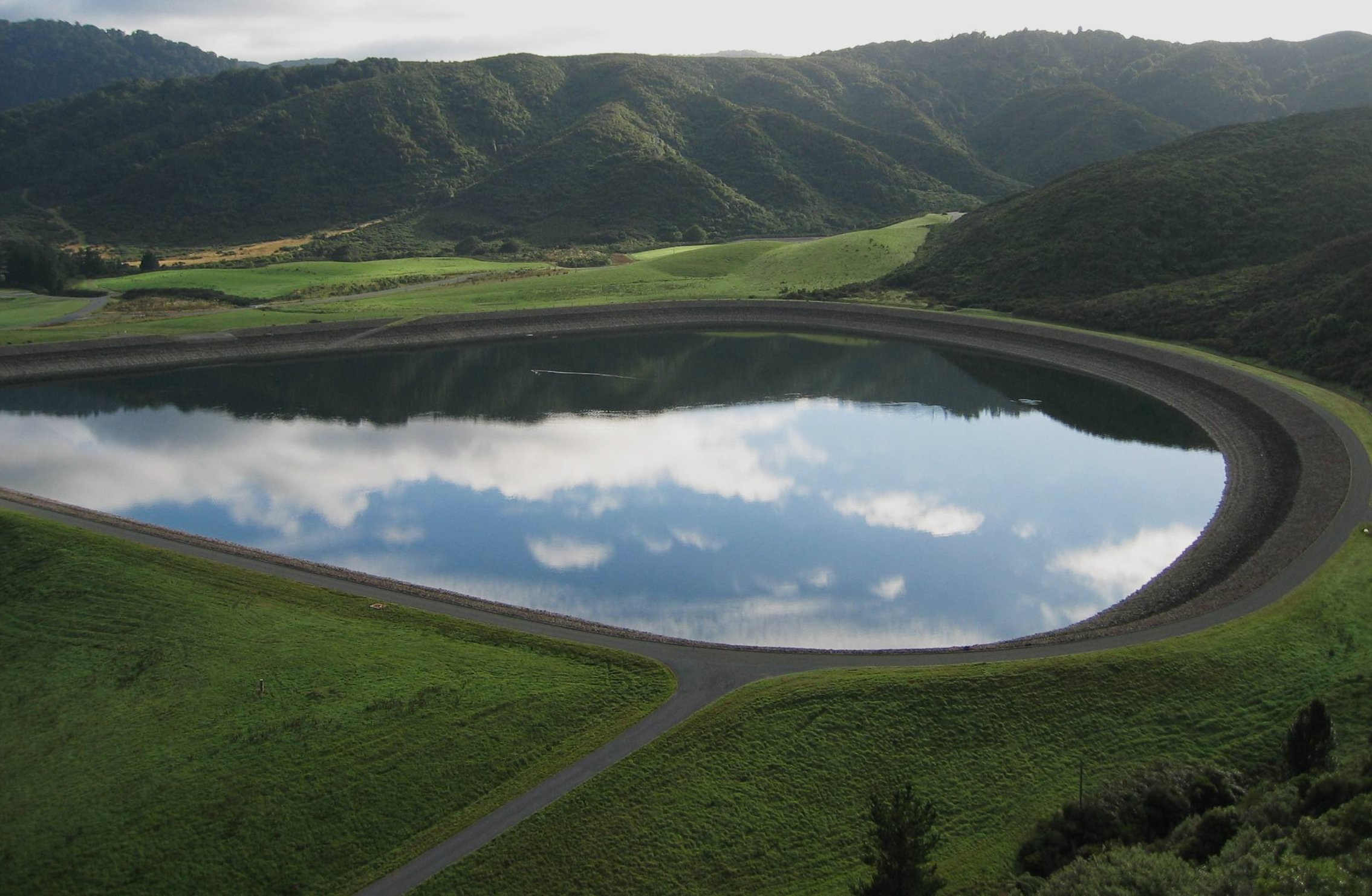 The upper Kaitoke reservoir, above Upper Hutt, New Zealand. Built 1943.